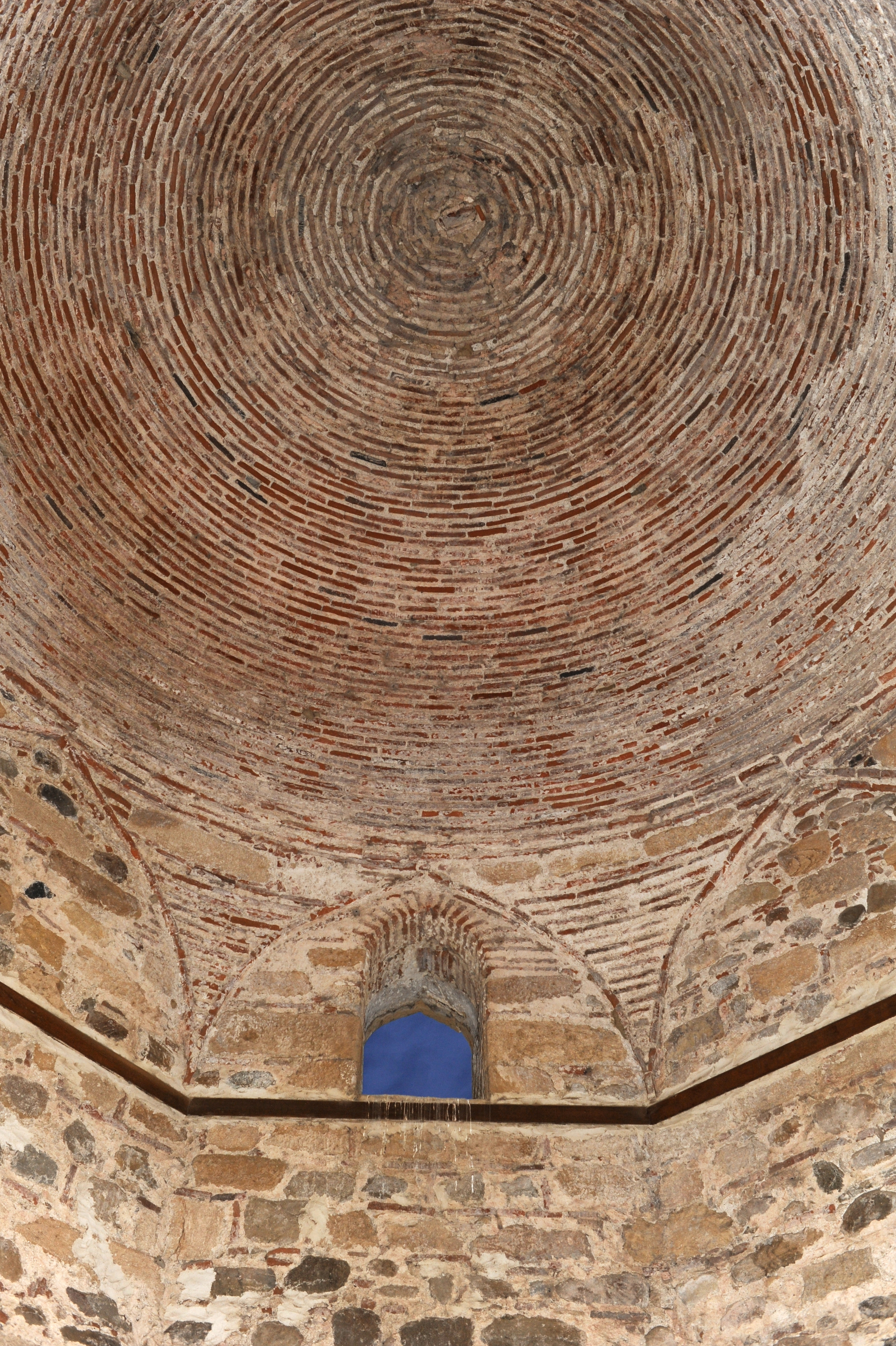 Interior Kütüklü Baba Tekkesi (Bektashi), Selino, Rhodope, West Thrace, Greece.